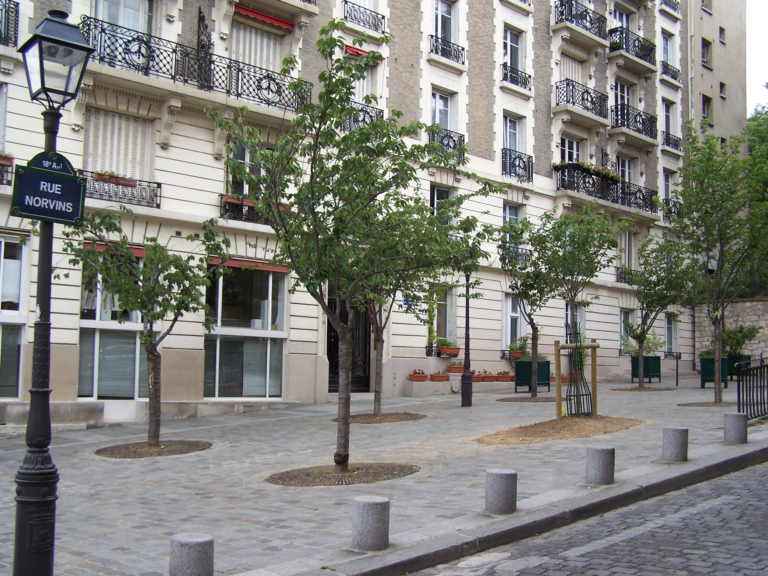 Place Marcel-Aymé / rue Norvins in Paris